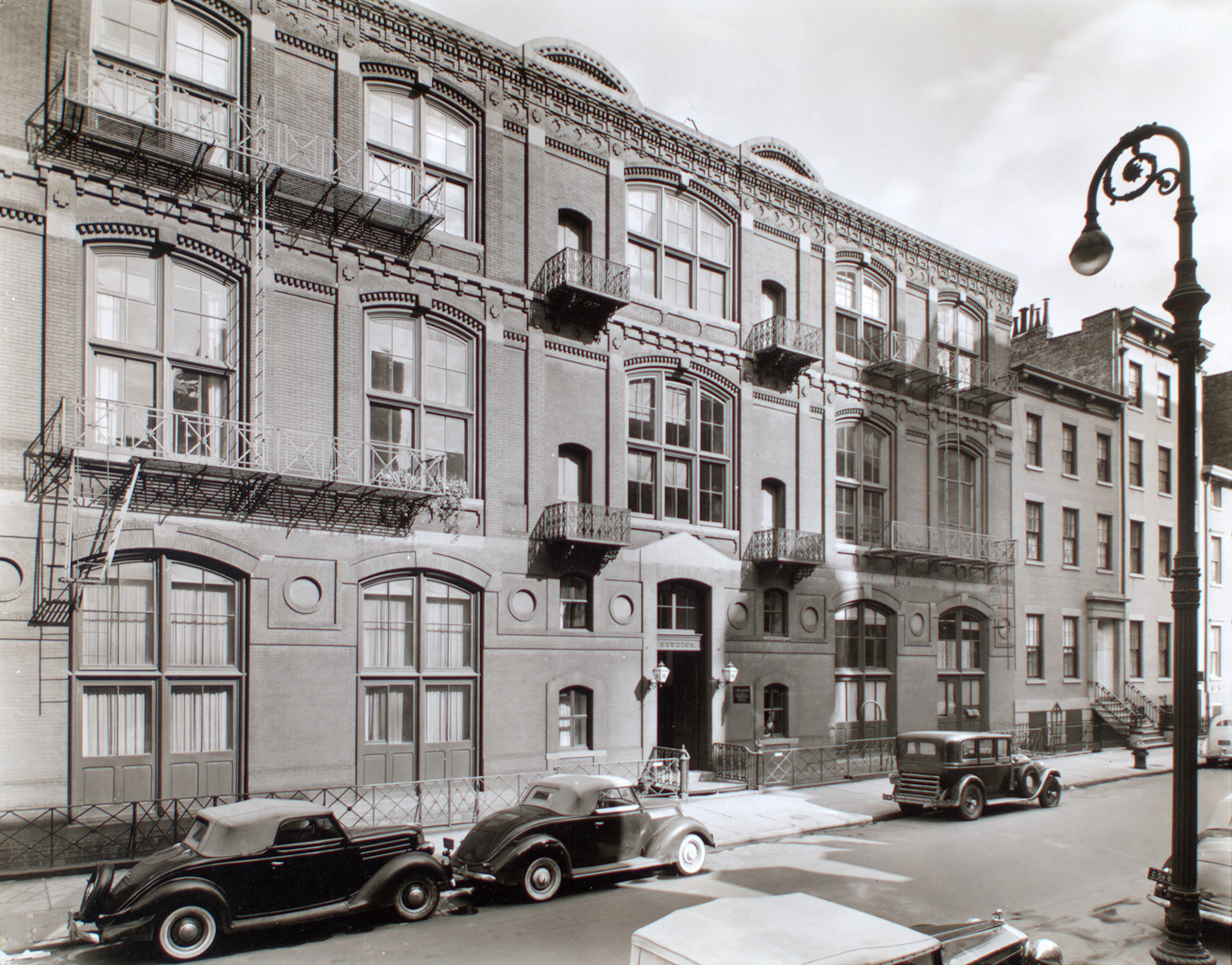 Convertible coupes parked in front of building with large windows, small iron balconies, fire escapes, 'Studios' in stone over door Citation/Reference: CNY# 312 Code: I.A.2.